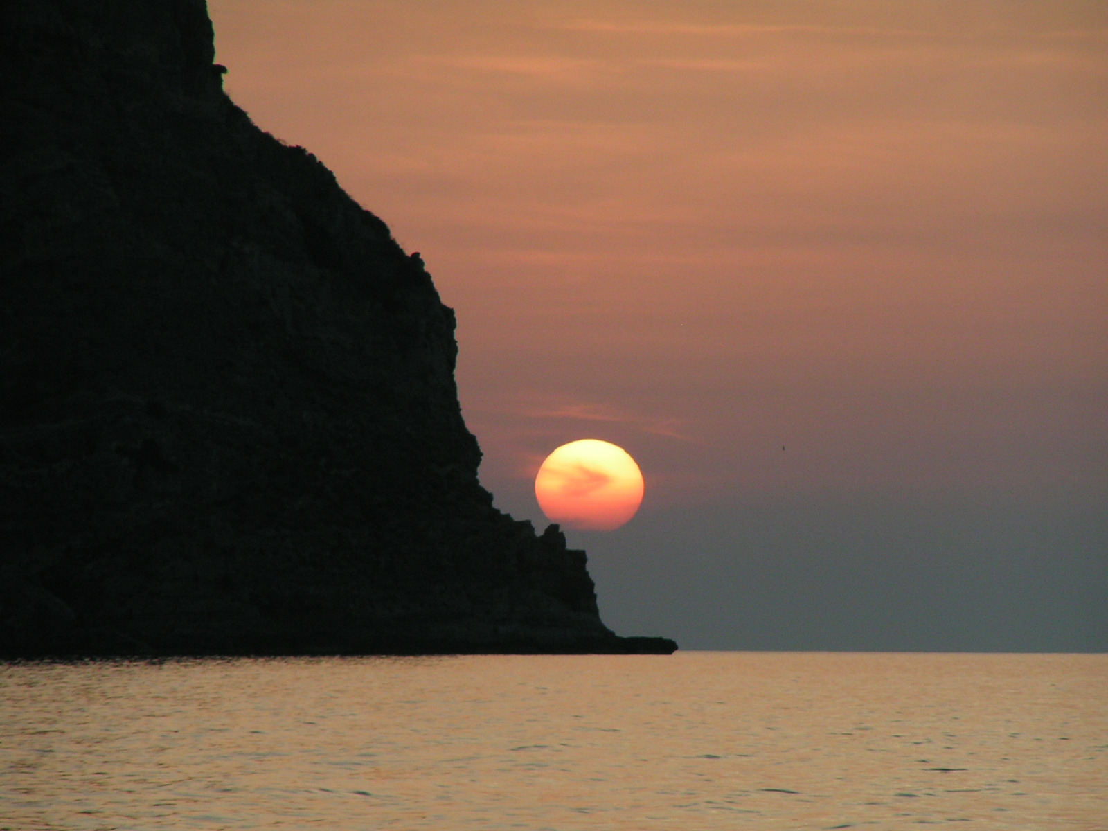 Great sunset taken from "The tongue of sand" in Oliveri (Messina), Sicily, Italy